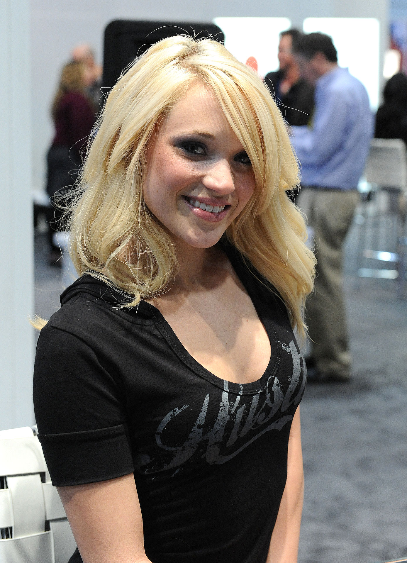 Teagan Summers at AVN Adult Entertainment Expo 2011